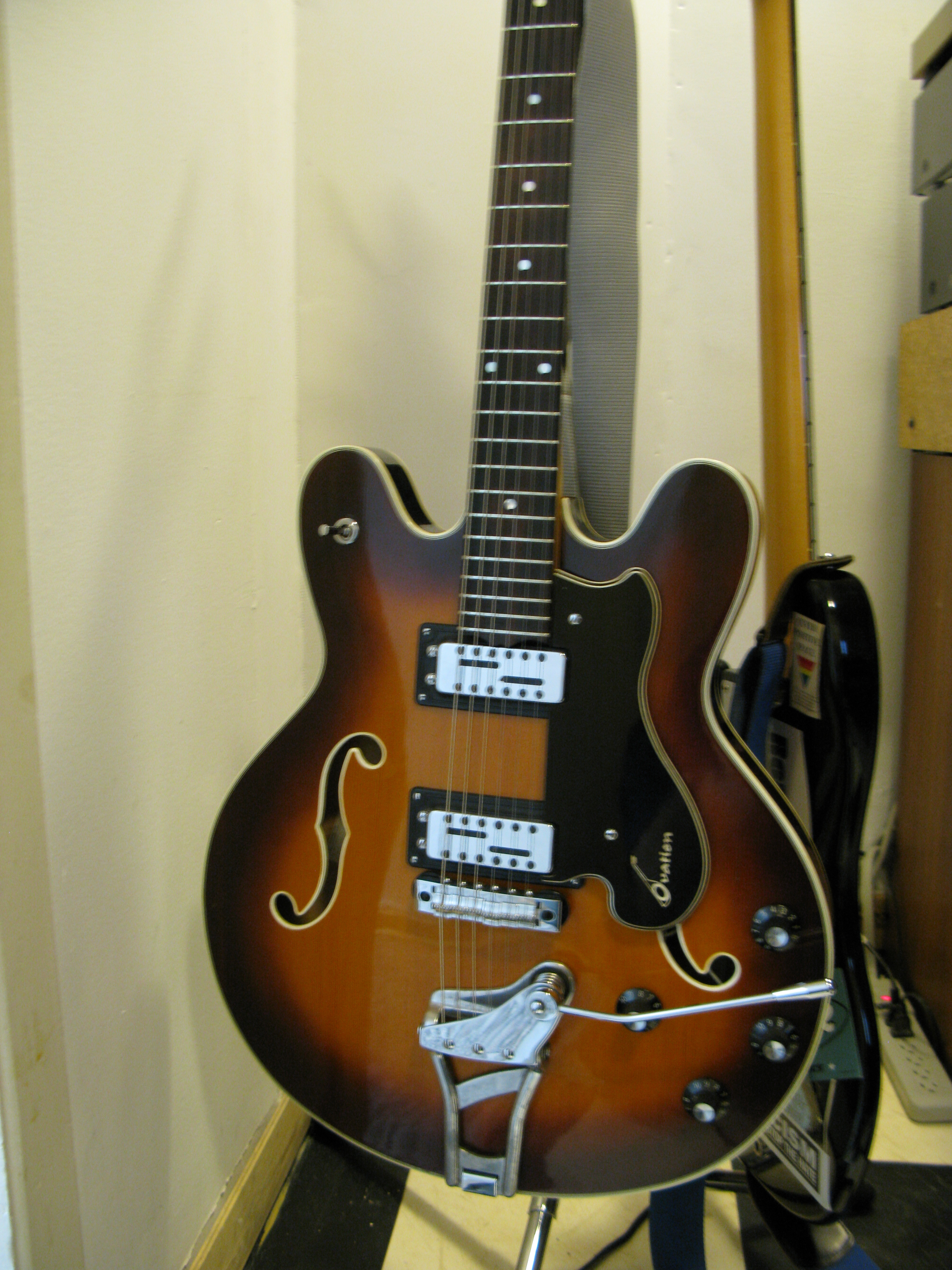 1967 Ovation Tornado hollow body. Note: According to official history, K-1160/K-1260 Tornado was released in 1968.